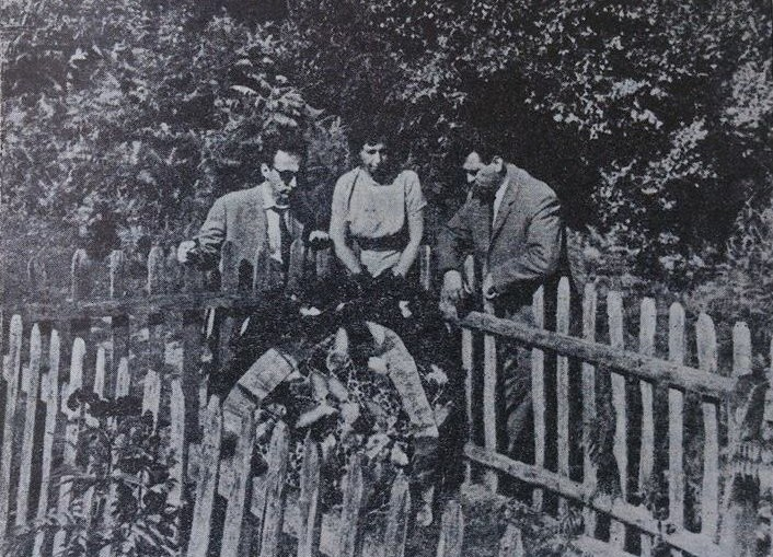 The surviving siblings of Vahida Maglajlić, People's Hero of Yugoslavia, visit her grave in Mala Krupska Rujiška in 1963.